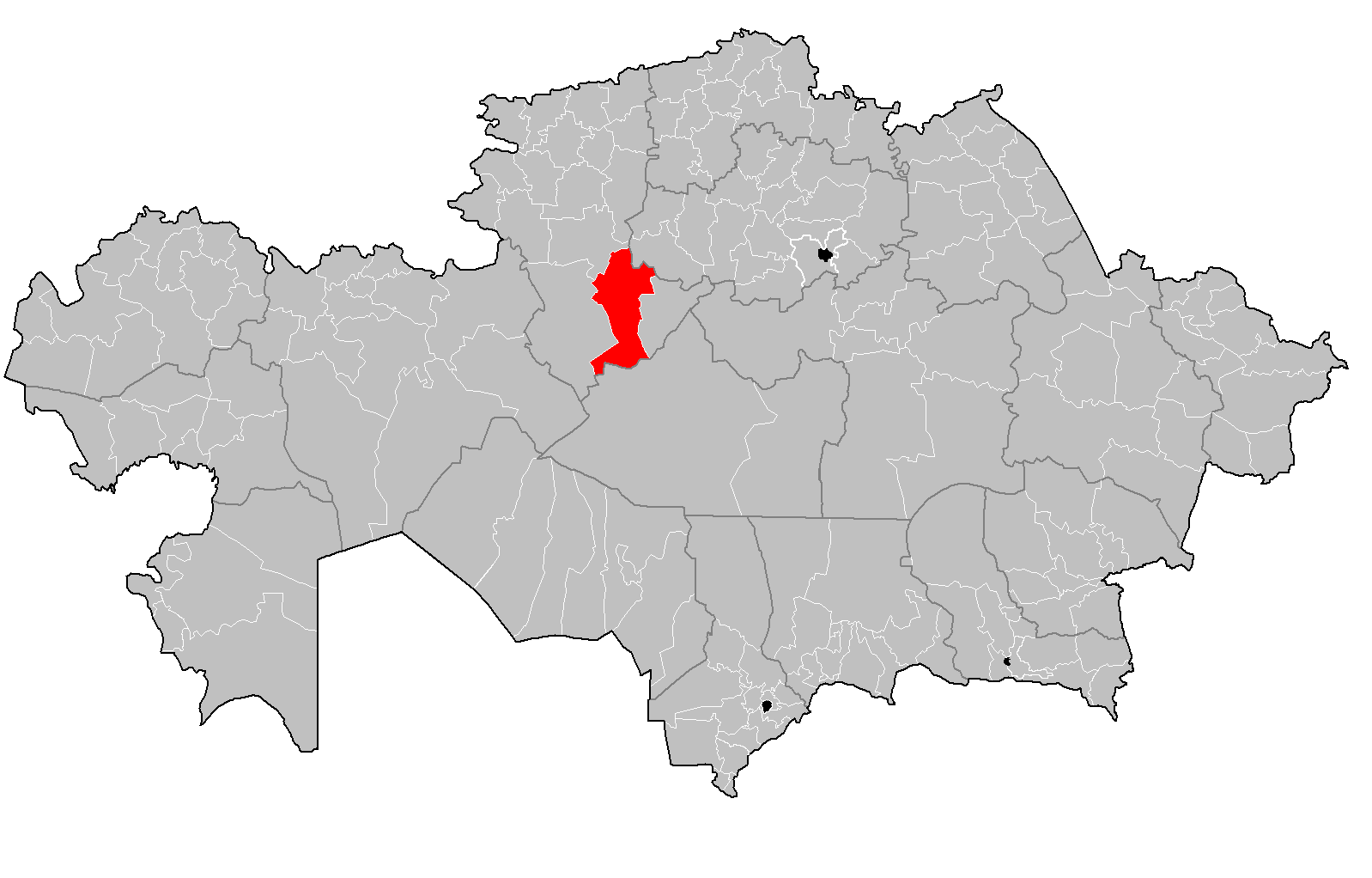 Map of the rayons of Kazakhstan. Created by Rarelibra 16:49, 3 August 2007 (UTC) for public domain use, using MapInfo Professional v8.5 and various mapping resources.